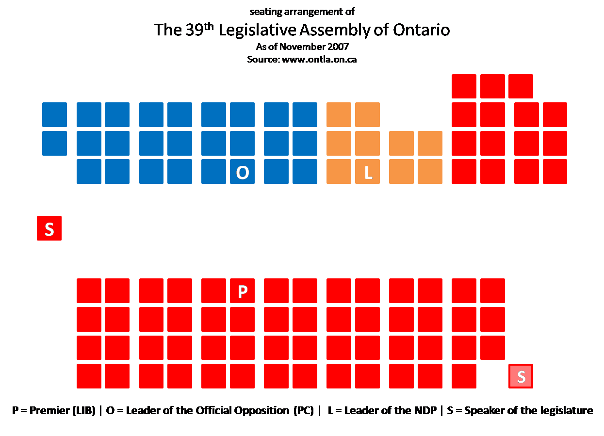 Ontario general election-Seat distribution and arrangement in the Ontario Legislative Assembly. Summary Captioned As {}